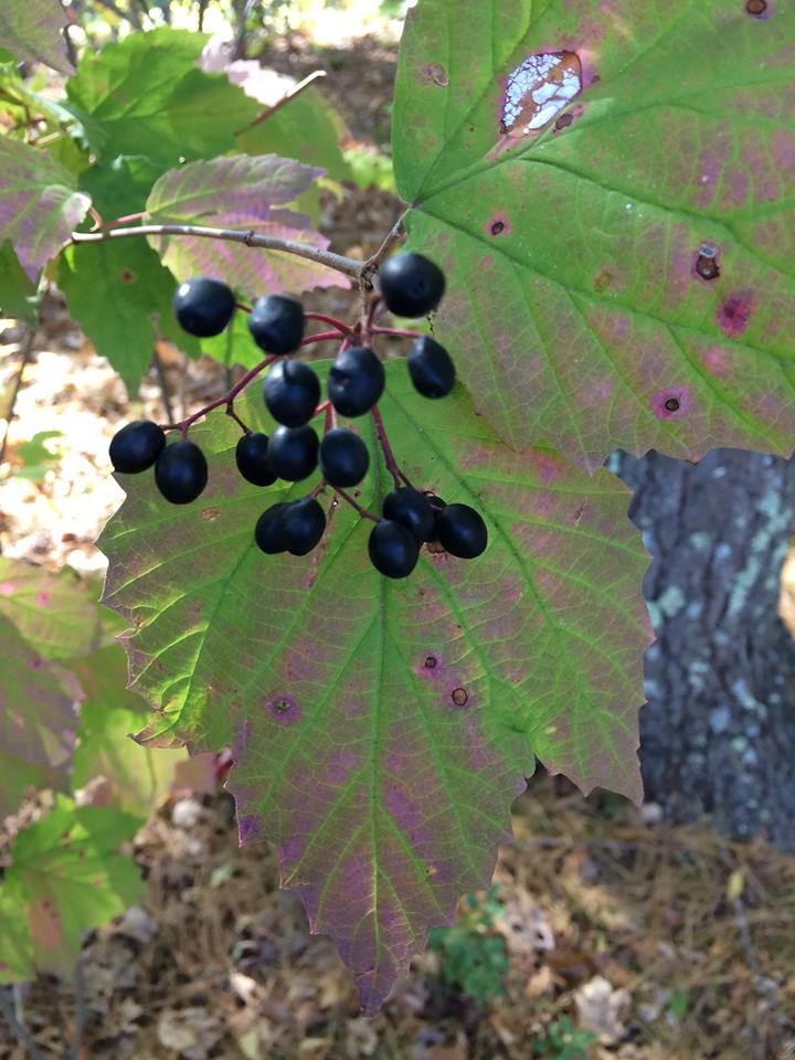 Photograph taken in Wrentham, MA on 19 October 2015 of a viburnum acerifolium (aka mapleleaf viburnum) bush. Viburnum acerifolium